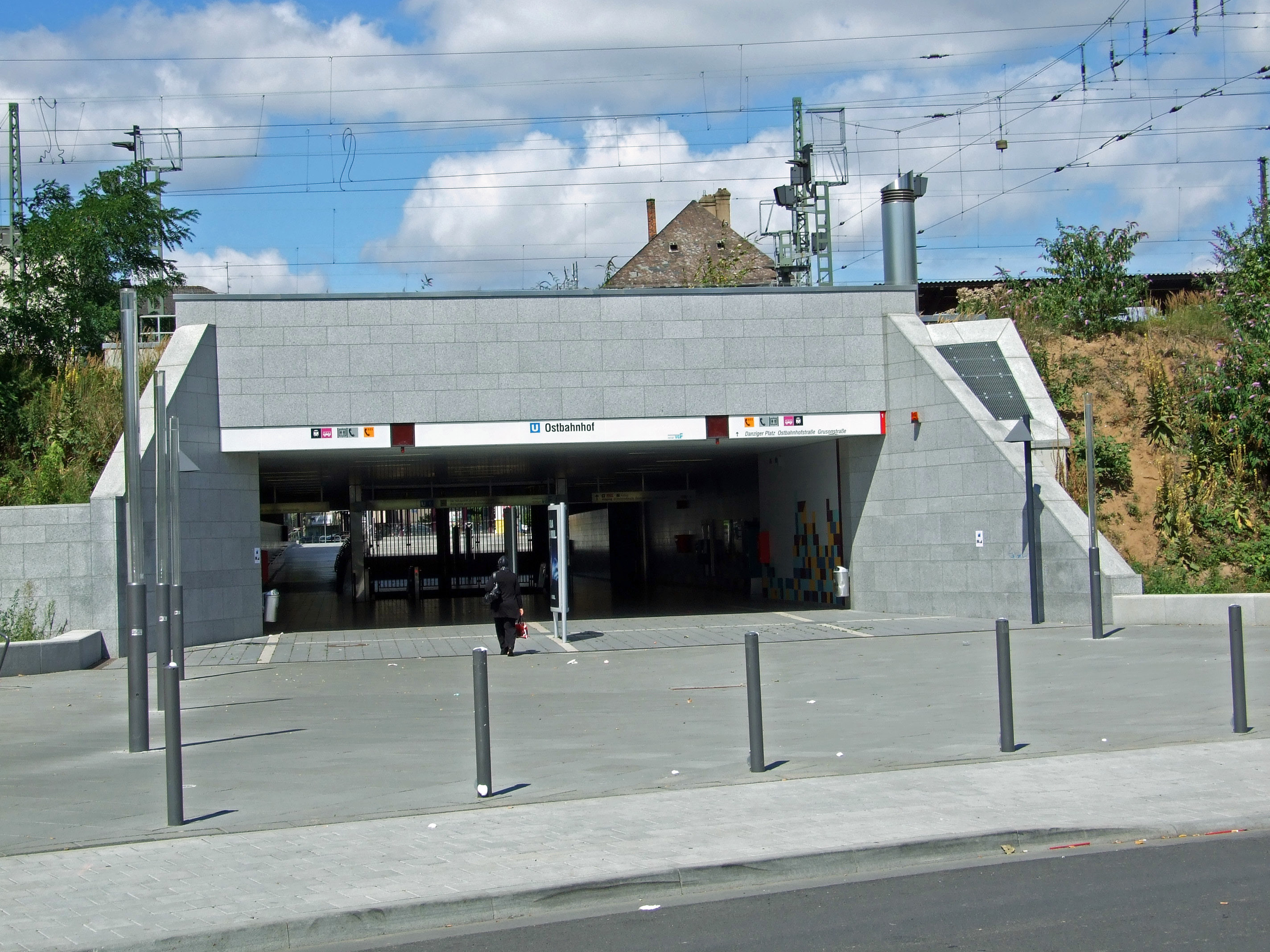 underground station access (backside, from Ferdinand-Happ-Strasse) Ostbahnhof in Frankfurt am Main (Ostend